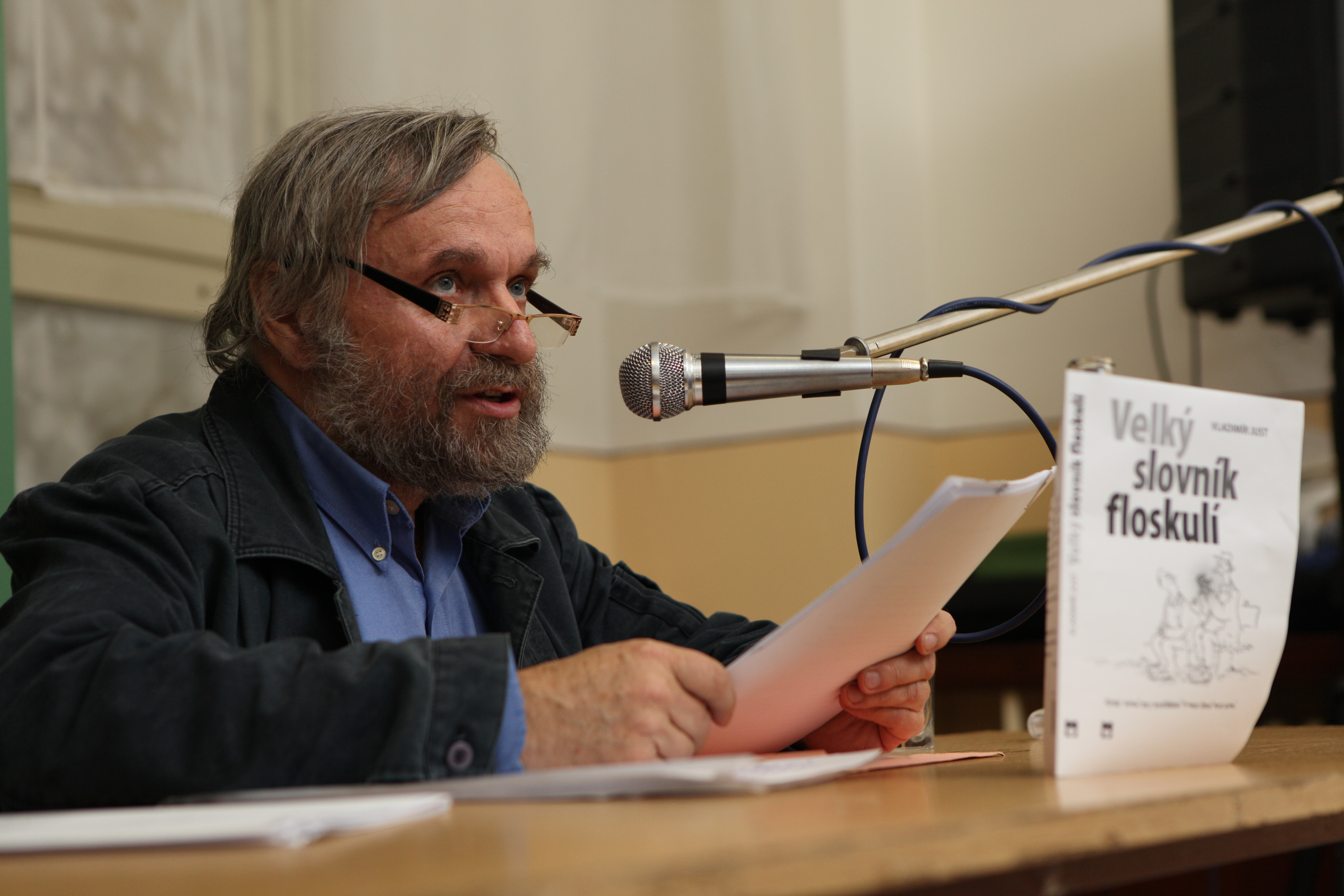 Czech critic Vladimír Just at 2009 Autumn Book Fair in Havlíčkův Brod